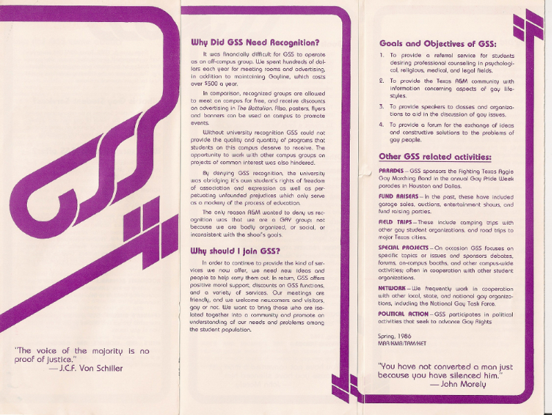 Partly unfolded flyer distributed by GSS in 1986, detailing the court case and the group's purpose. Not all of the flyer is displayed here.